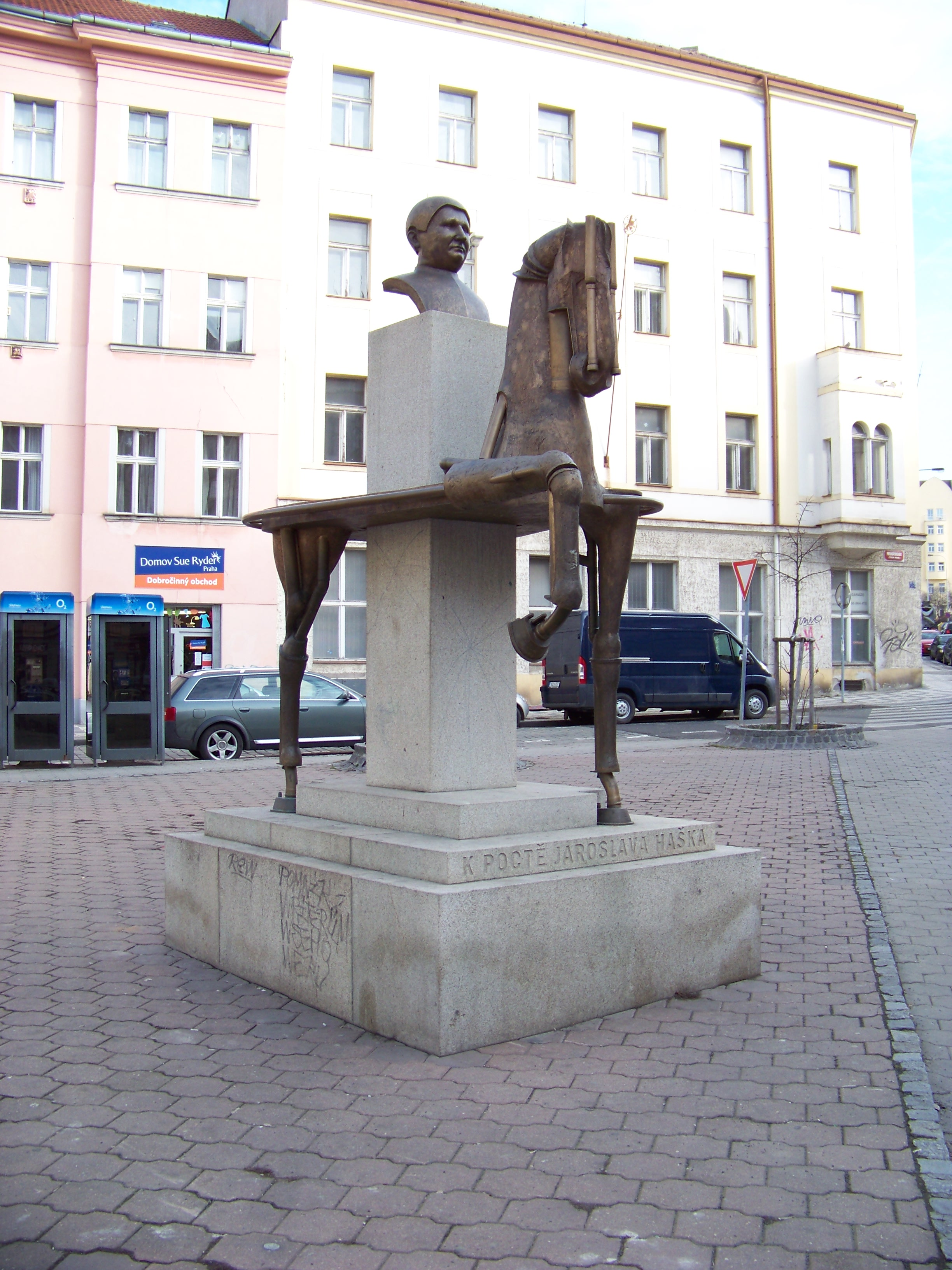 Prague-Žižkov, the Czech Republic. Prokop's Square, equestrian sculpture of Jaroslav Hašek, by Karel Nepraš and Karolína Neprašová. - Google Maps - Google Earth